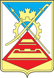 Novocherkassk (Rostov oblast), coat of arms (1980)